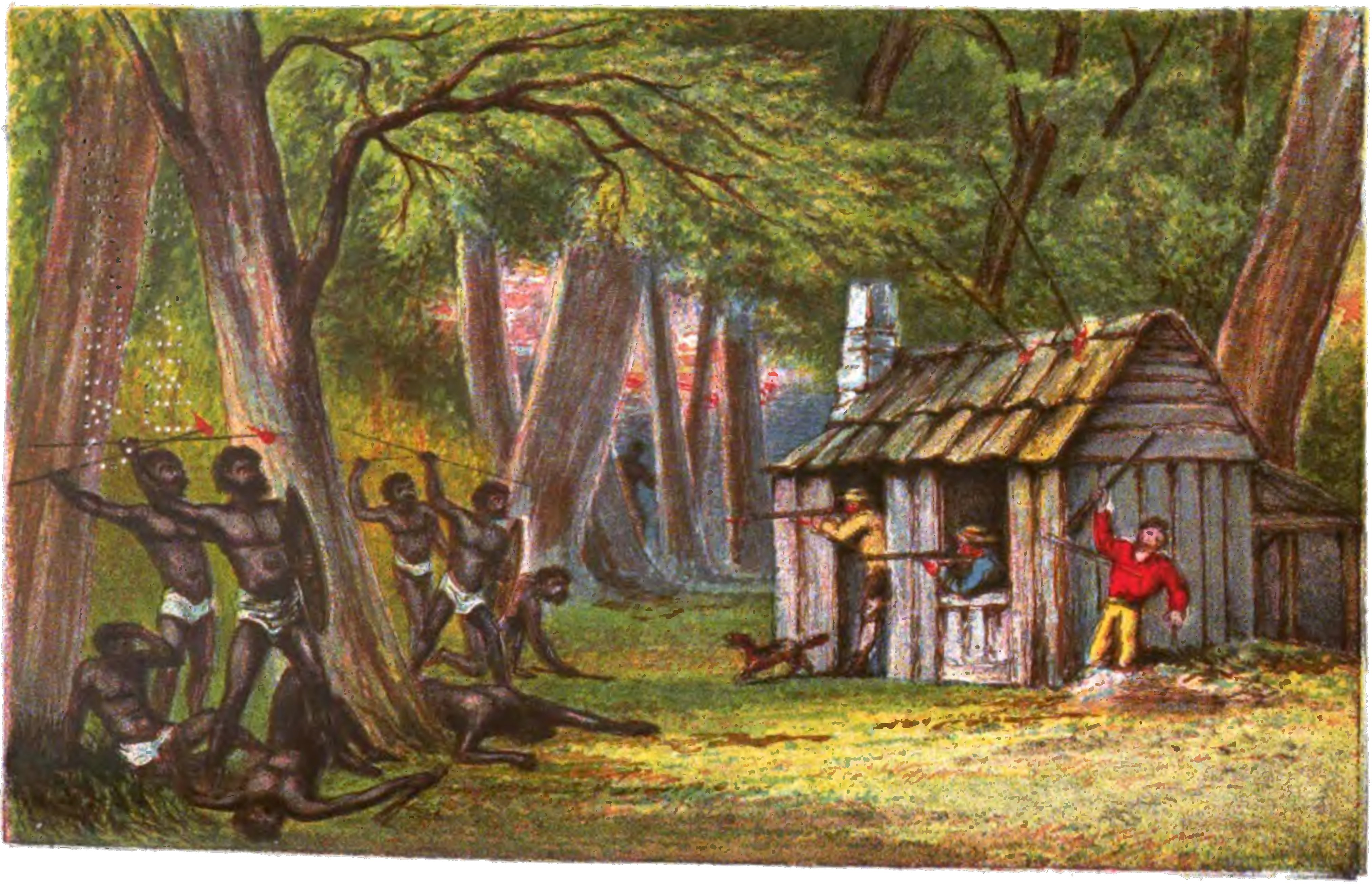 Attack on a Settlers Hut